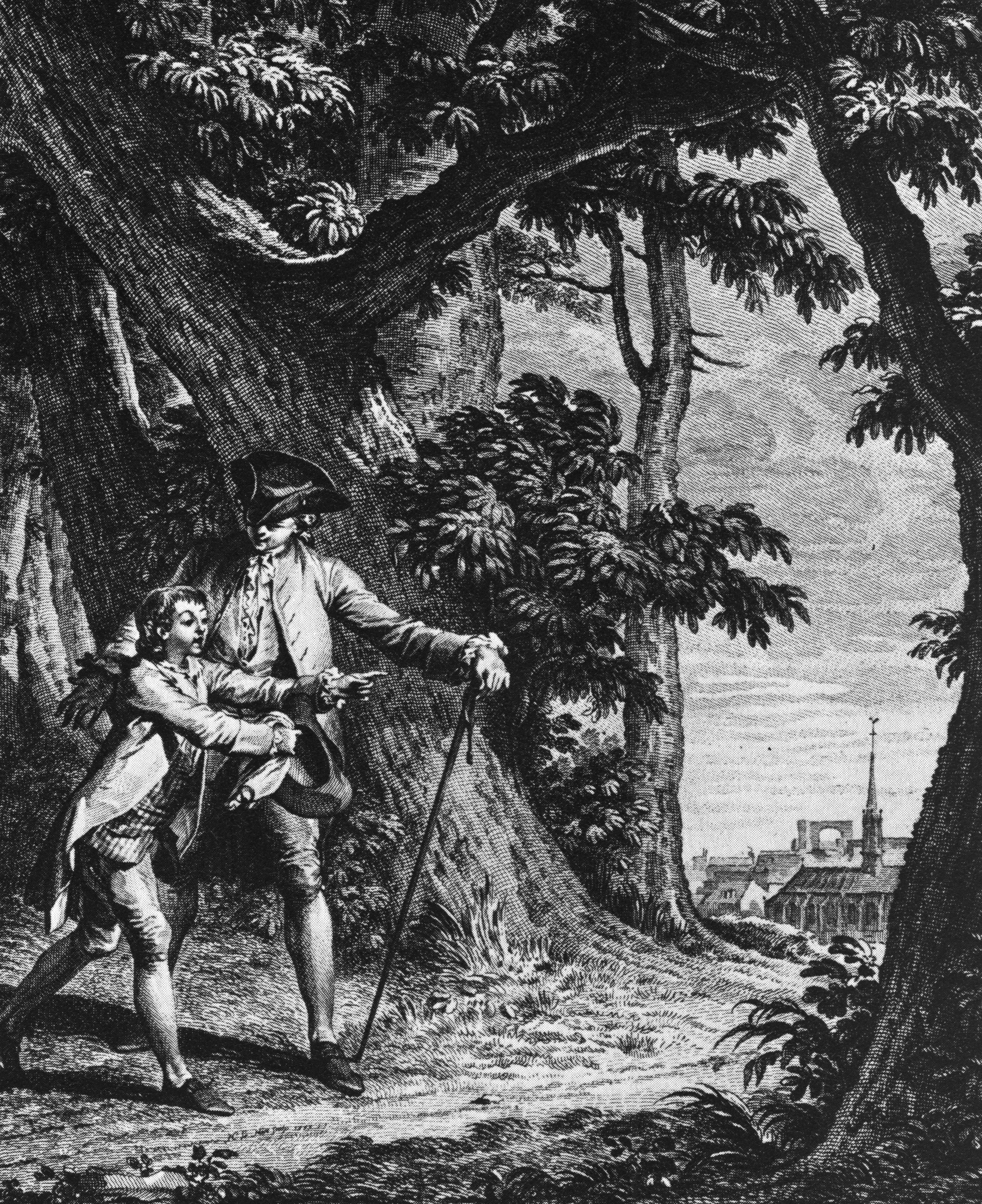 Contemporary illustration to Rousseau's Emile. The teacher lets his pupil discover and reflect and teaches him to follow nature.